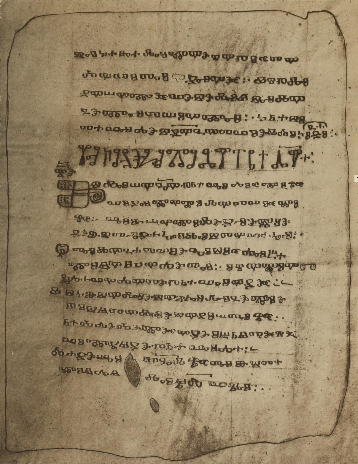 A page from the 11th-century Psalterium Sinaiticum, one of the canon monuments of Old Church Slavonic.